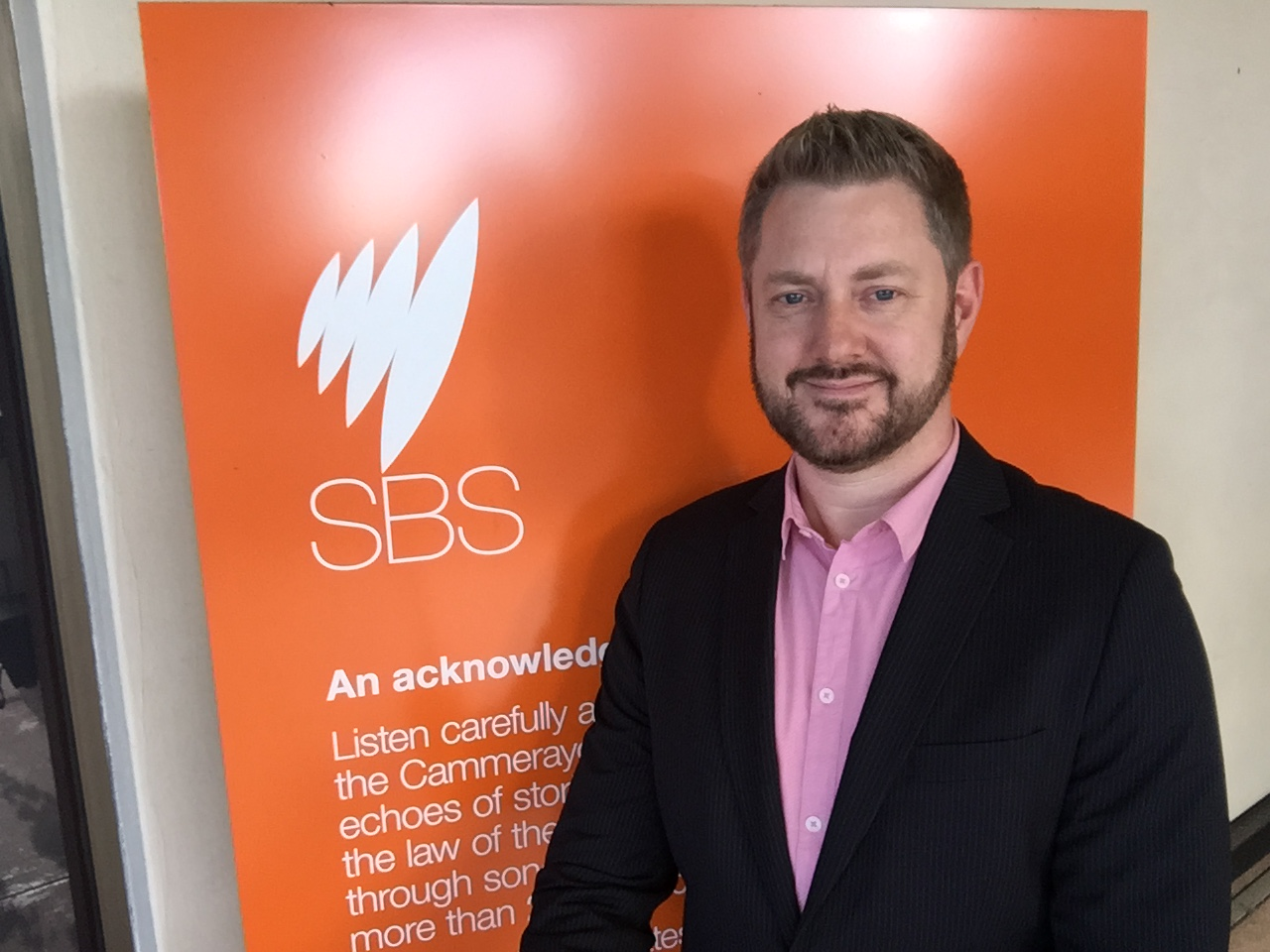 Stephen Lee (TV Producer and Presenter) outside the SBS television studios in Sydney